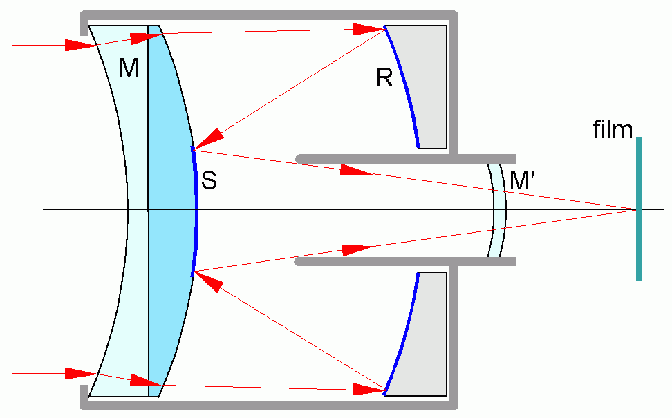 Catadioptric mirror lens diagram.